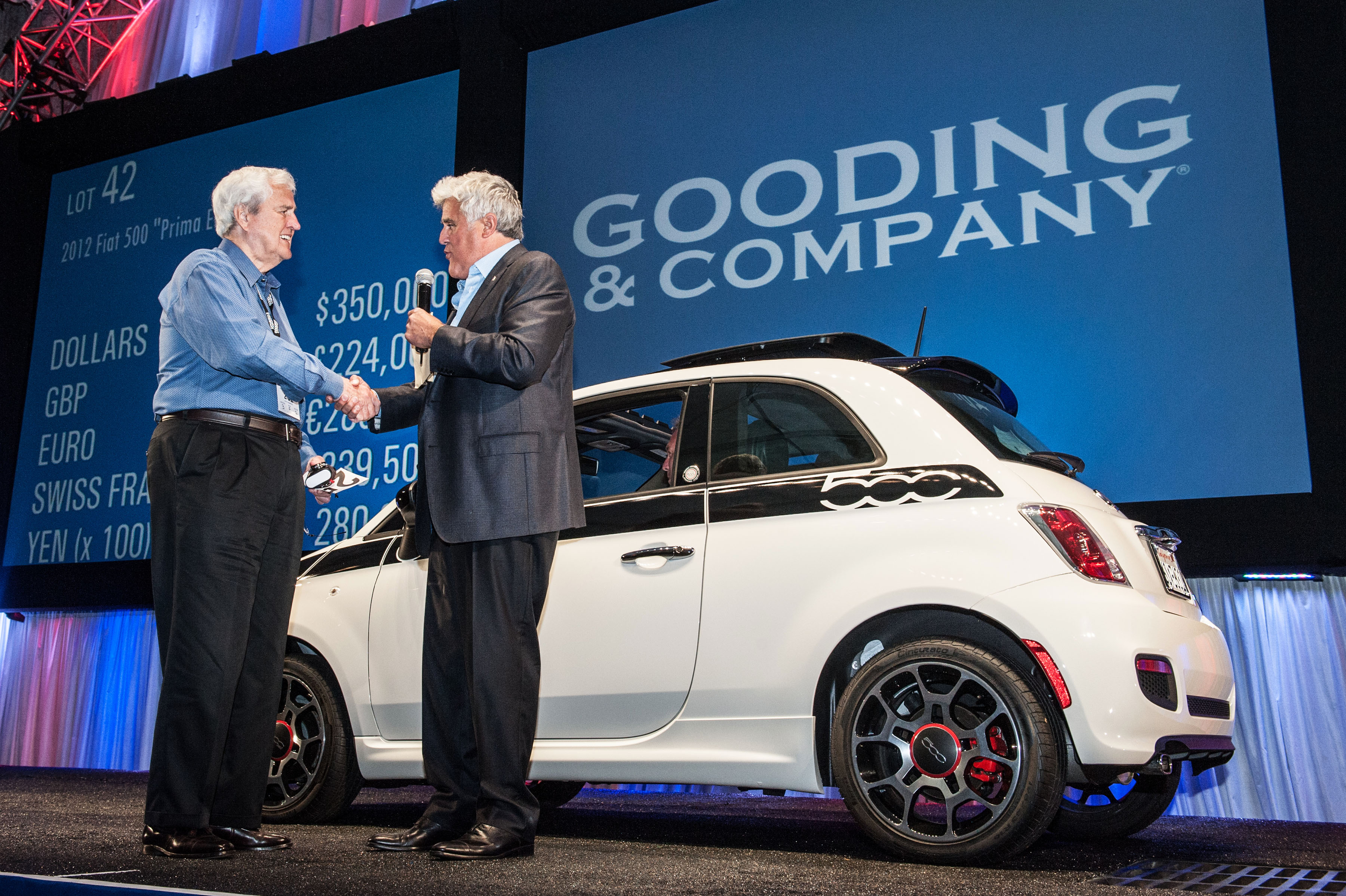 Jay Leno, right, congratulates Bill Munday for winning his 2012 Fiat 500 Prima Edizione during an auction benefiting the Fisher House Foundation in Pebble Beach, Calif., Aug. 18, 2012. Munday's bid was $350,000. In addition, other donations were recieved to total of $650,000 dollars raised for the foundation. U.S. Army Photo by Staff Sgt. Teddy Wade